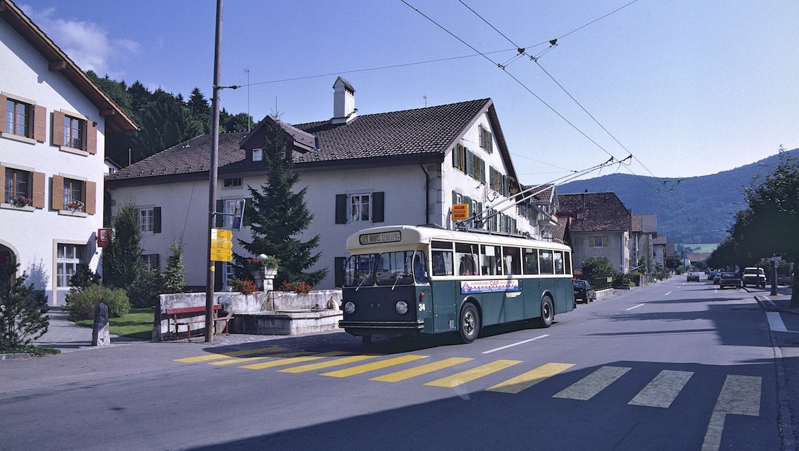 Trolleybus No. 34 of the rural/interurban Val-de-Ruz trolleybus system pauses at a stop westbound in Dombresson on 8 September 1983, about seven months before the line's closure. No. 34 was ex-Genevè 810, acquired in 1968. Built by Saurer in 1942, its body was rebuilt circa 1970 by Albert Haag before entering service on the VR system, in 1971.